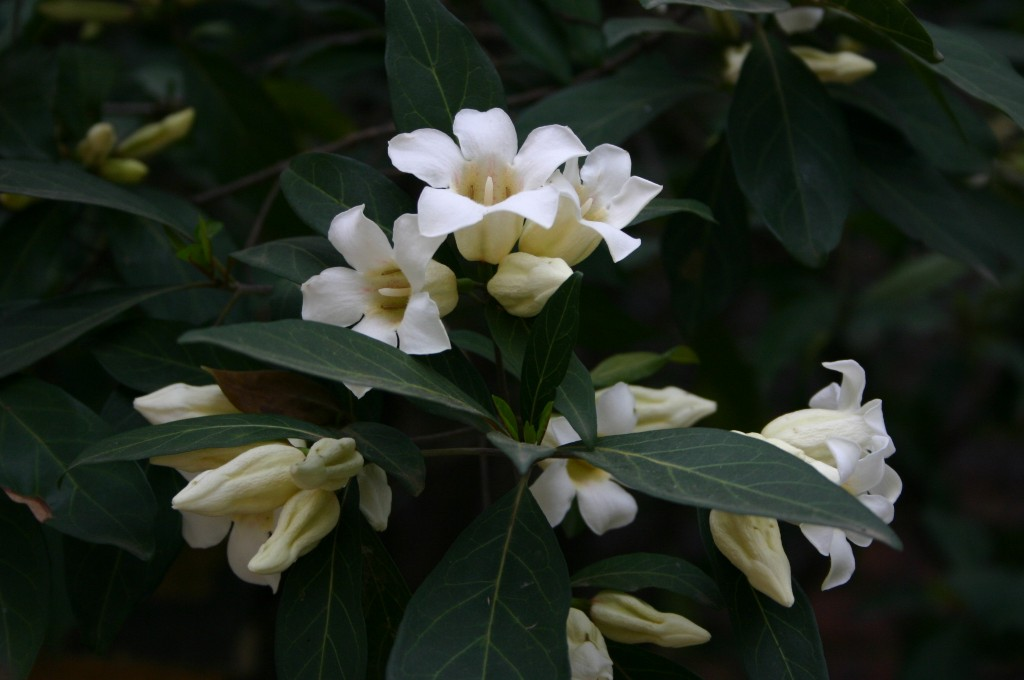 Flowers of Rothmannia globosa (Hochst.) Keay